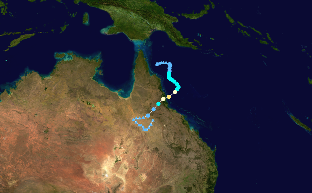 Cyclone Winifred (1986) track. Uses the color scheme from the Saffir-Simpson Hurricane Scale.